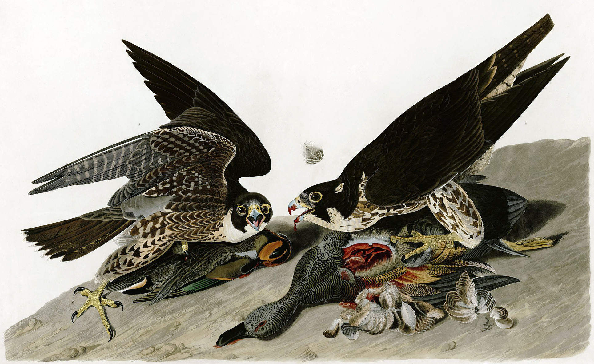 Peregrine Falcons drawn by John James Audubon for the book The Birds of America